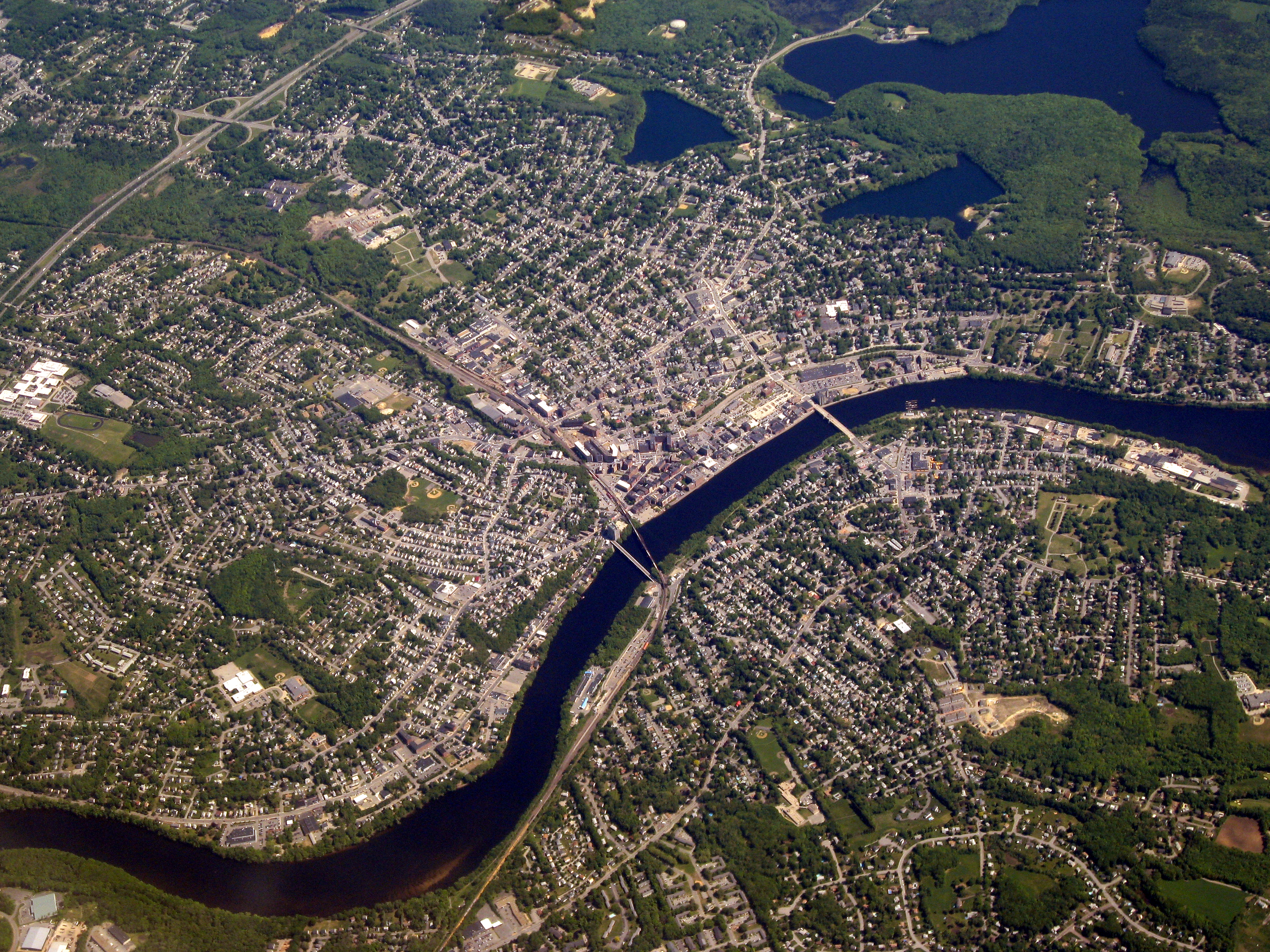 Haverhill and Bradford, Massachusetts. The Merrimack River runs between the former (above) and the latter (below). The water bodies by Haverhill are Pentucket Lake, Kenoza Lake and Lake Saltonstall. The bridge on the right is South Main Street. The one on the left is Gozelian.